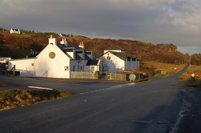 The Three Chimneys Restaurant A place with a widespread reputation.